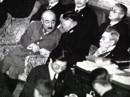 War Minister Seoshirō Itagaki (1885–1948, center) and Naval Minister Mitsumasa Yonai (1880–48, to the right of Itagaki) at a Budjet Committee session. To the right of Yonai is Prime Minister Kiichirō Hiranuma.